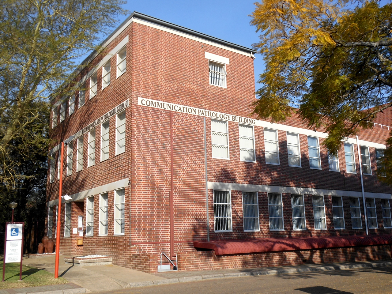 The Communication pathology building on Hatfield campus of the University of Pretoria